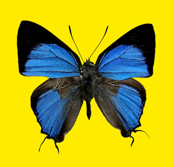 Pratapa tyotaroi, male, upperside